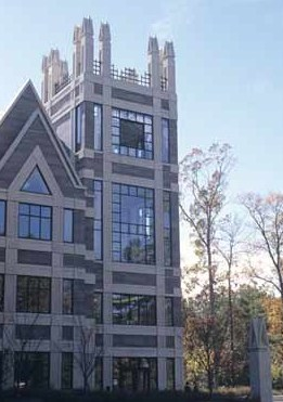 Sanford School of Public Policy